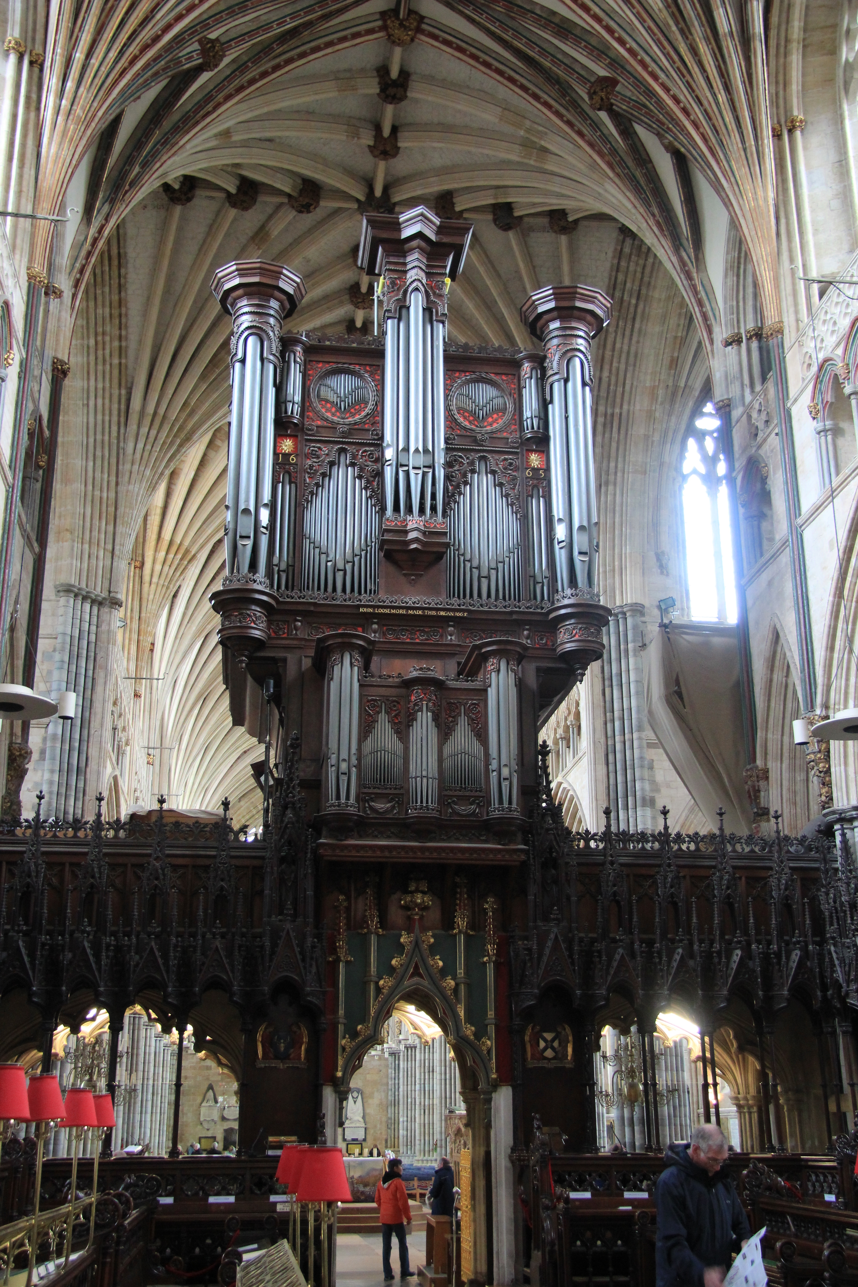 Interior of Exeter cathedral